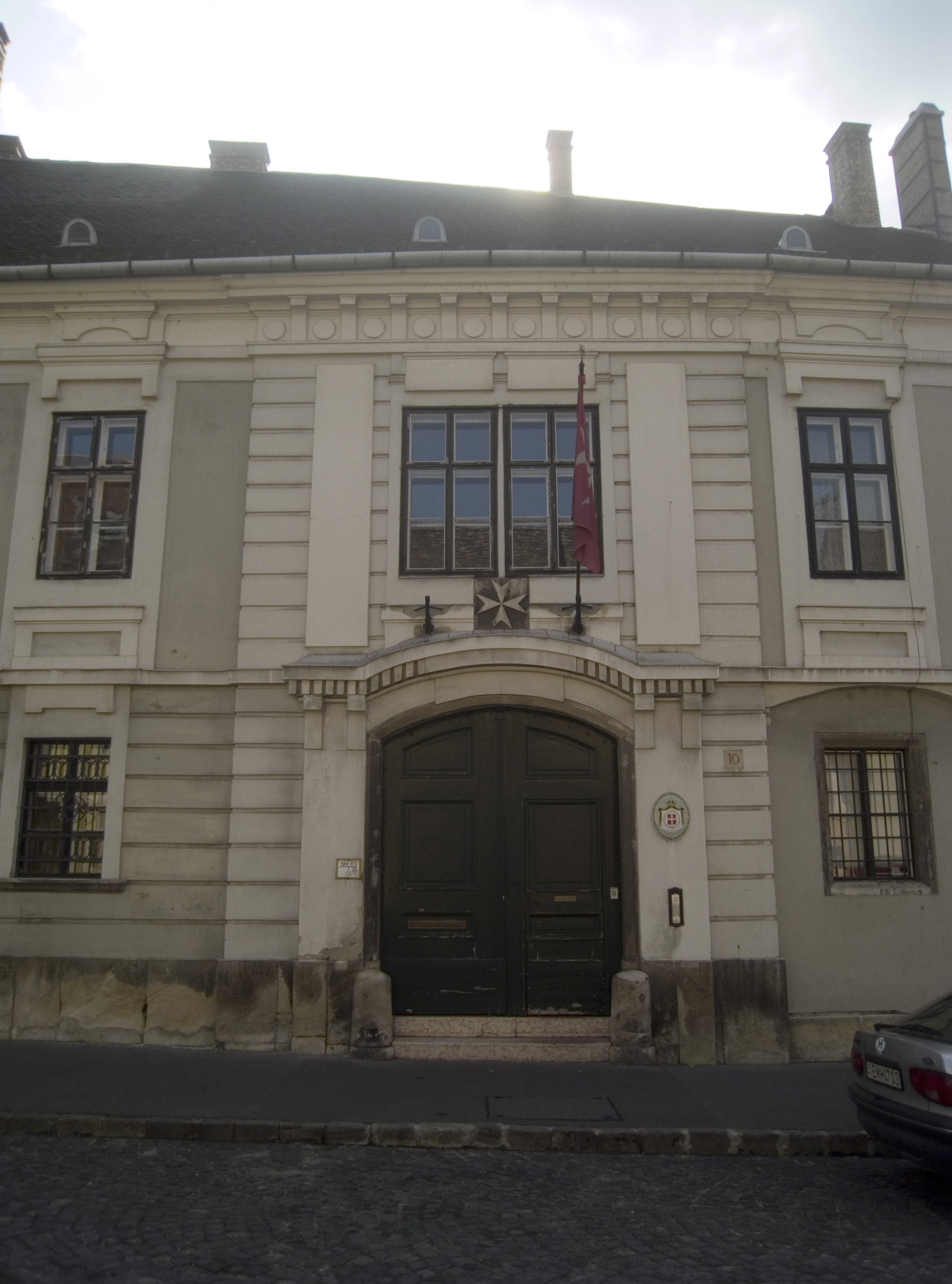 Embassy of the Sovereign Military Order of Malta in Budapest. This is a photo of a monument in Hungary, Identifier: 93